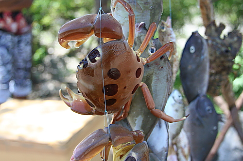 Crabs at kiamba.